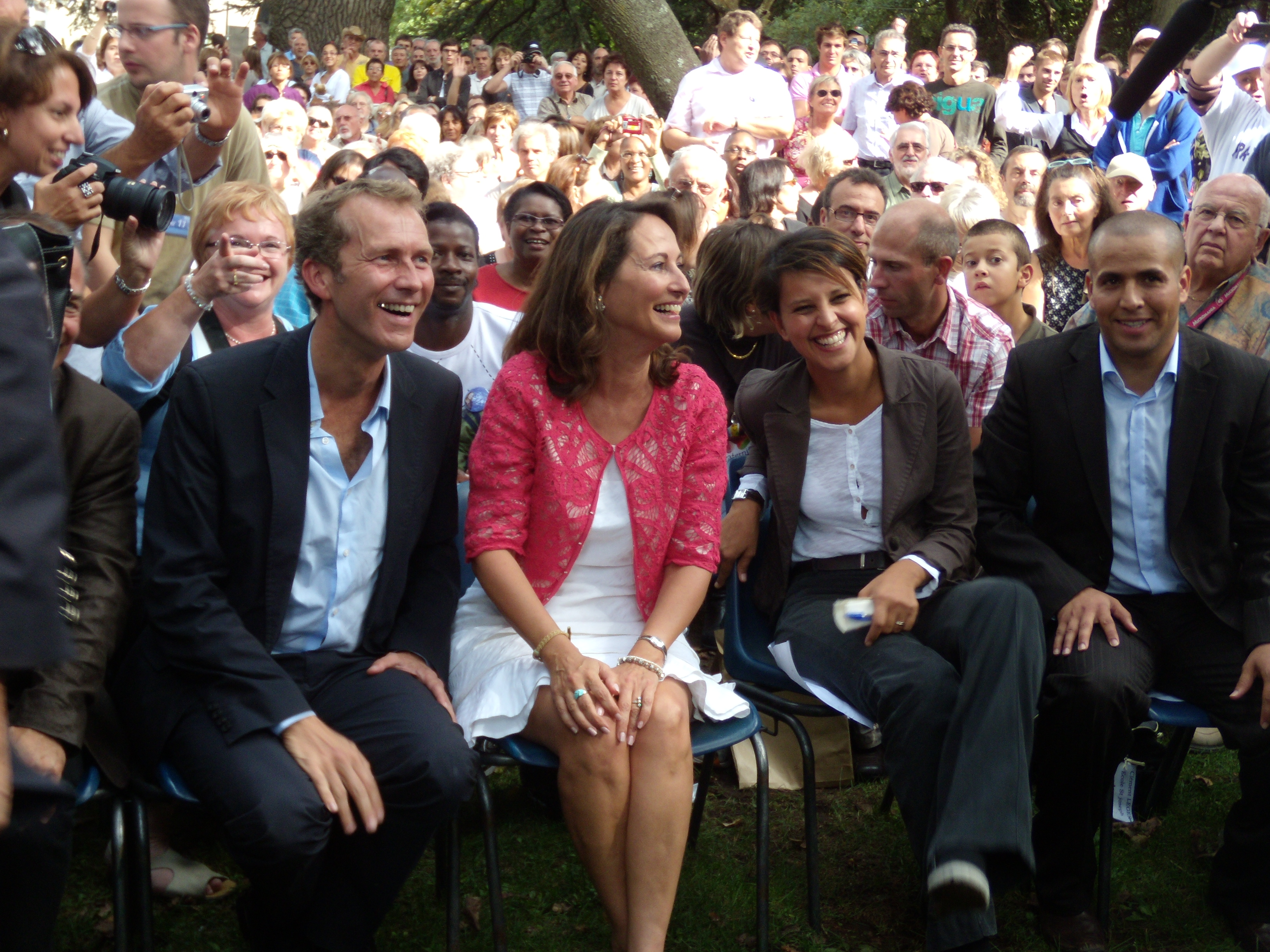 Guillaume Garot, Ségolène Royal, Najat Belkacem and Brahim Abbou during the Fête de la fraternité at Montpellier in september 2009.